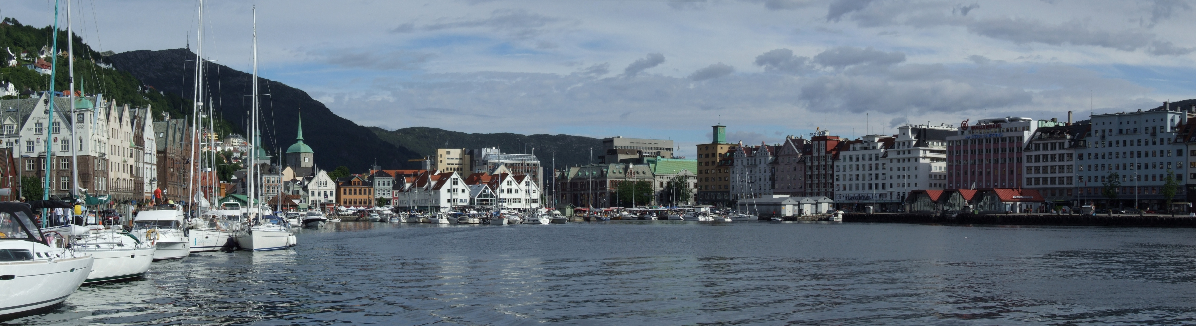 Torget and marina in Bergen, Norway